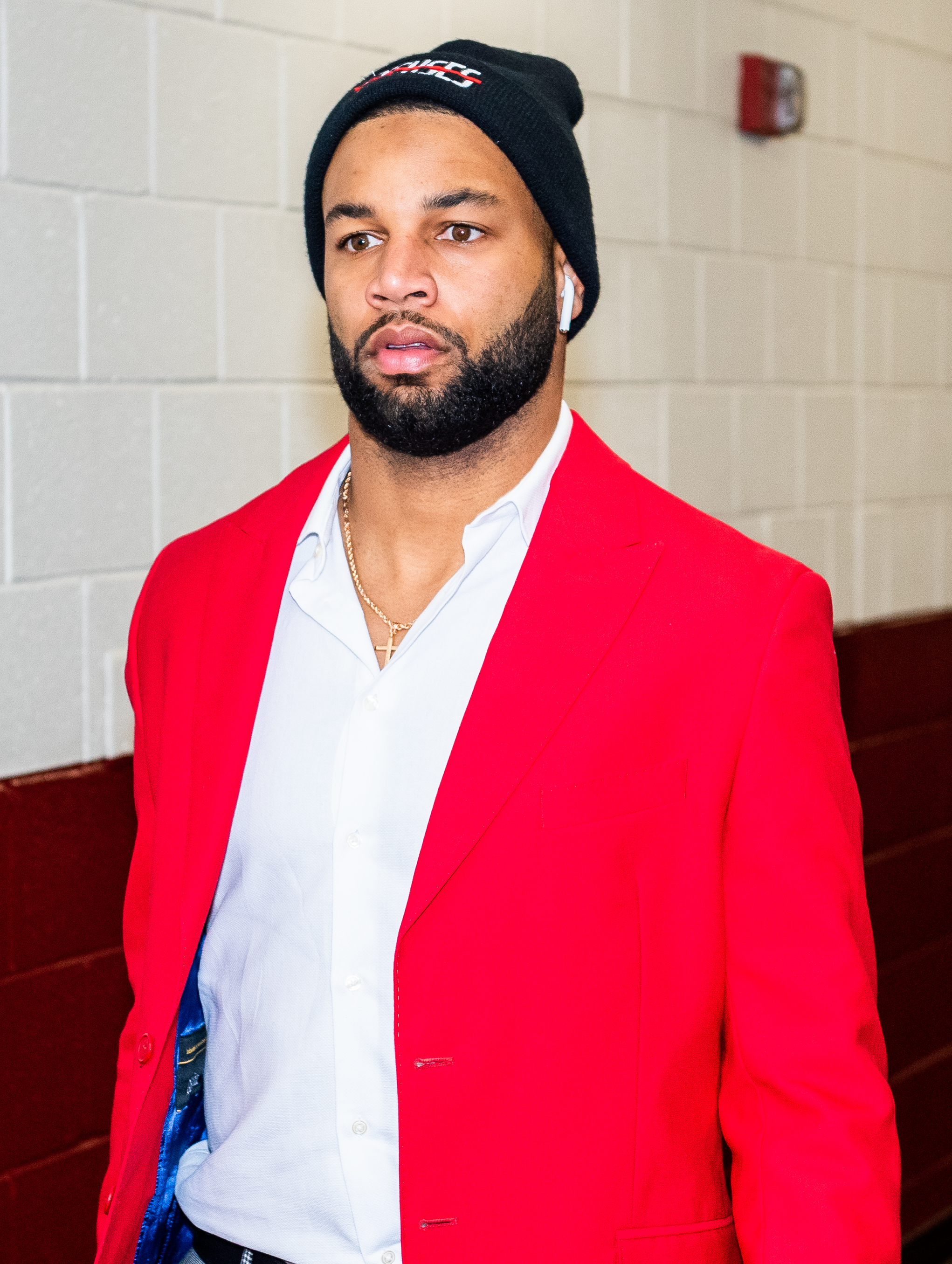 In 2019